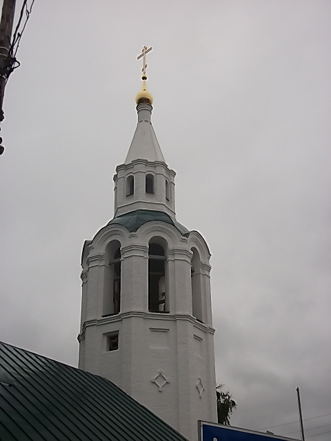 Церковь Зосимы и Савватия в Ярославле. Колокольня.